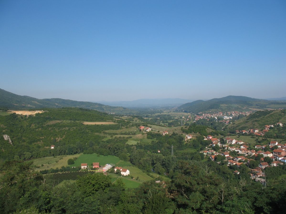 View on Toplica valley from Prokuplje, Serbia.